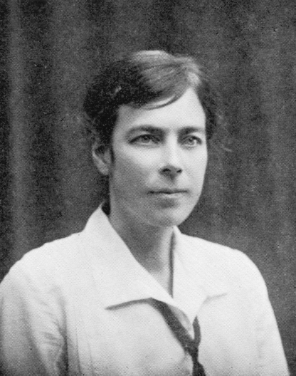 Photograph of the Finnish psychologist and writer Ester Hjelt (1885–1960).